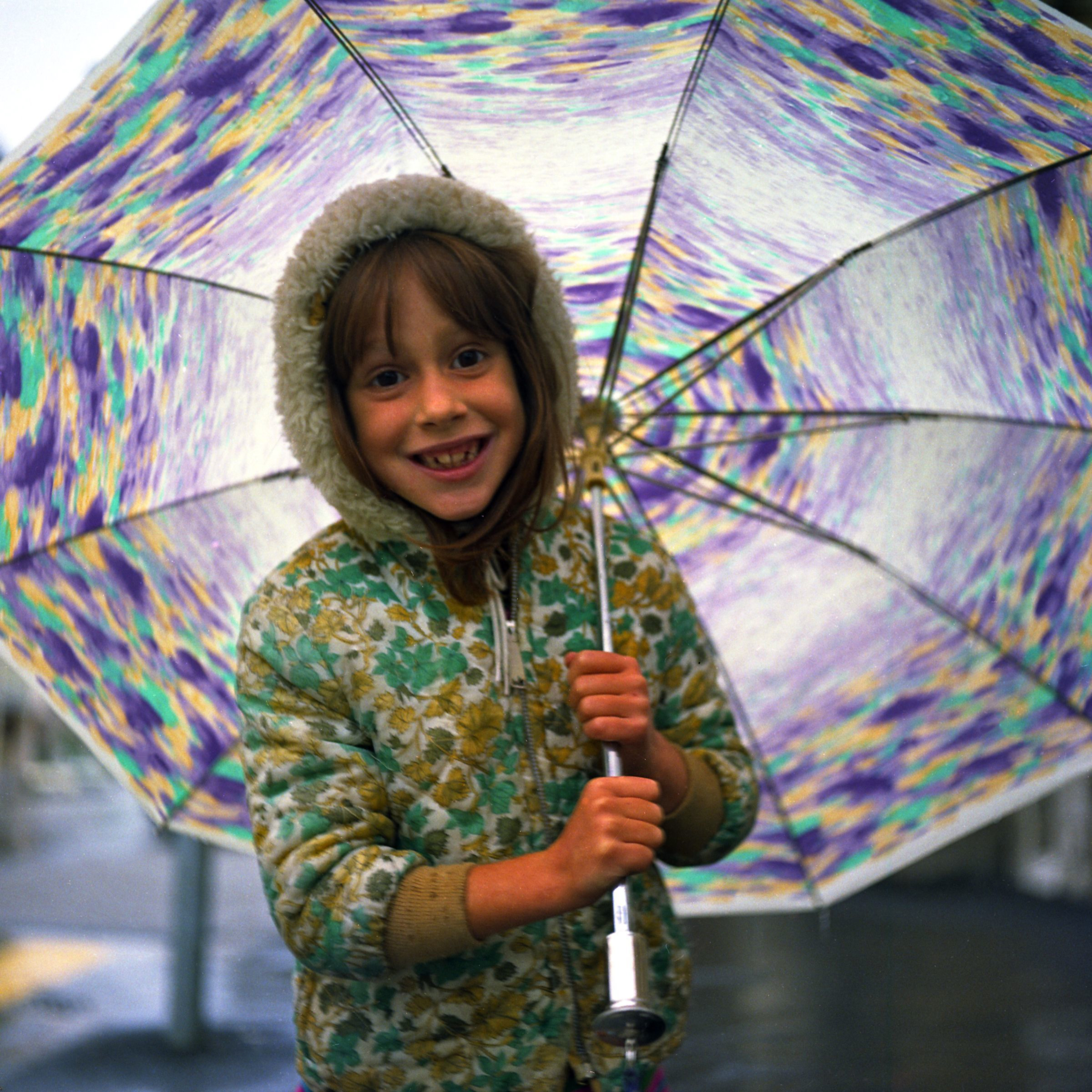 Child carrying an open umbrella Other information Photo by George Garrigues.